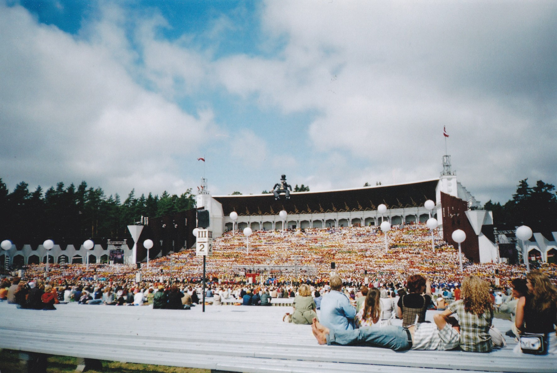 IX Latvian School song and dance festival in 2005. Riga, Latvia. Rehearsal.